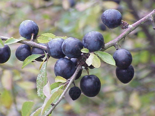 Species: Prunus spinosa Family: Rosaceae Image No. 3